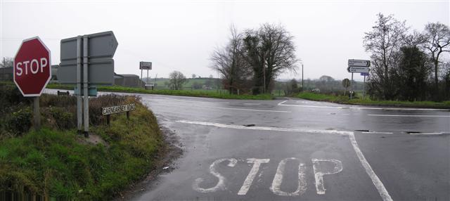 Road junction at Kilcurry The Carnearney Road joins the B52 here.